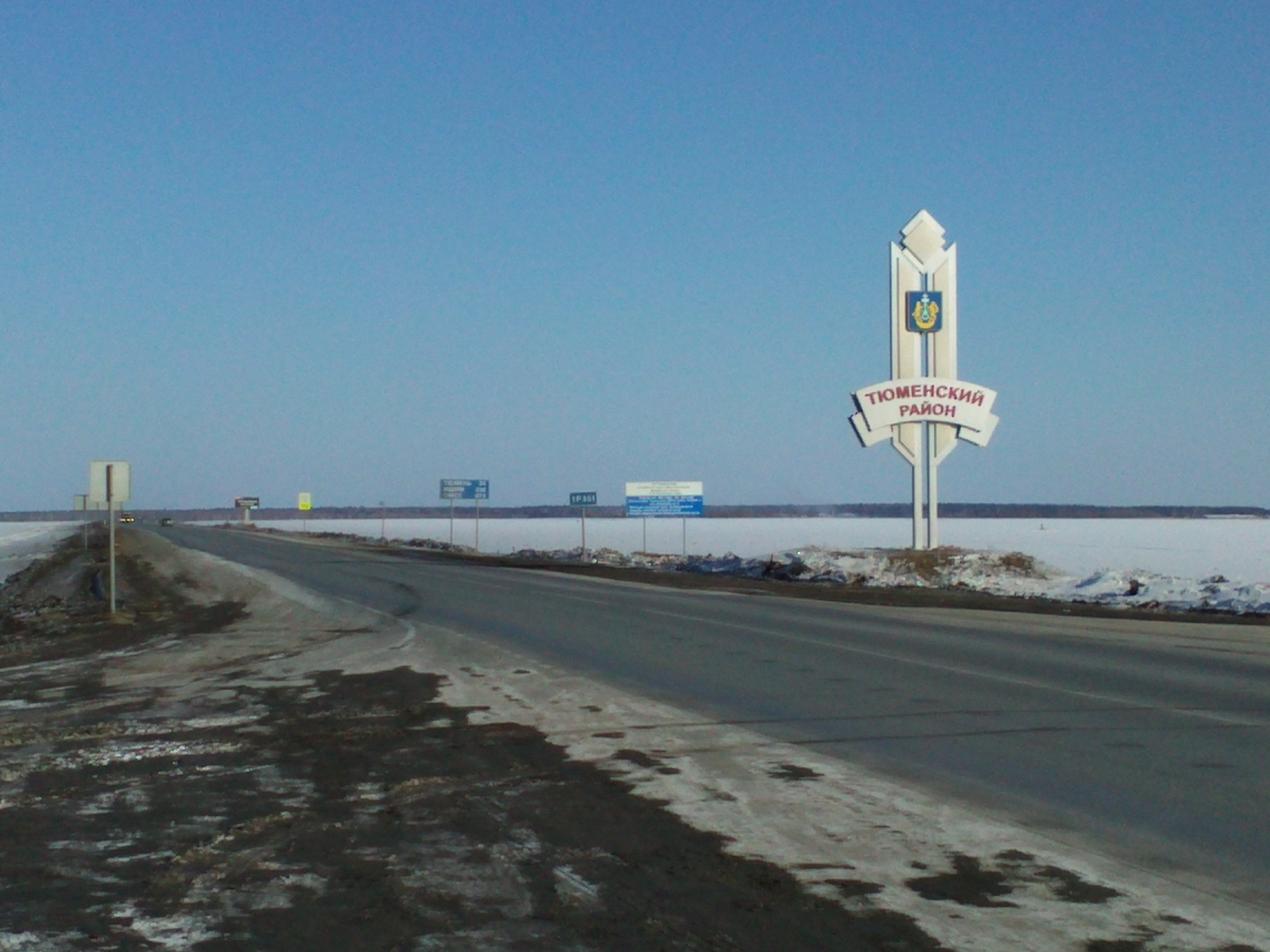 R351 road in Russia: border between Sverdlovsk and Tyumen oblasts (Tyumen oblast entry)